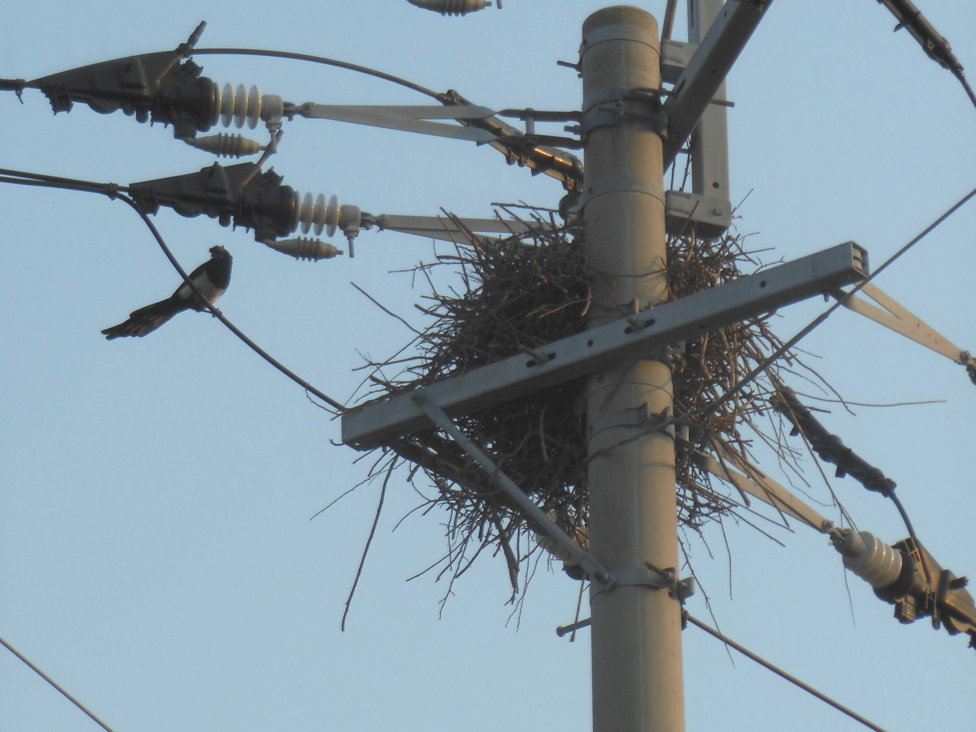 Magpie making nest on utility pole, in Ōdakuma, Kawasoe, Saga.